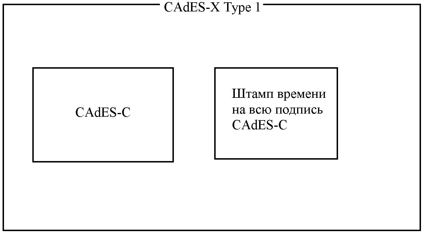 CAdES-X Type 1 illustration